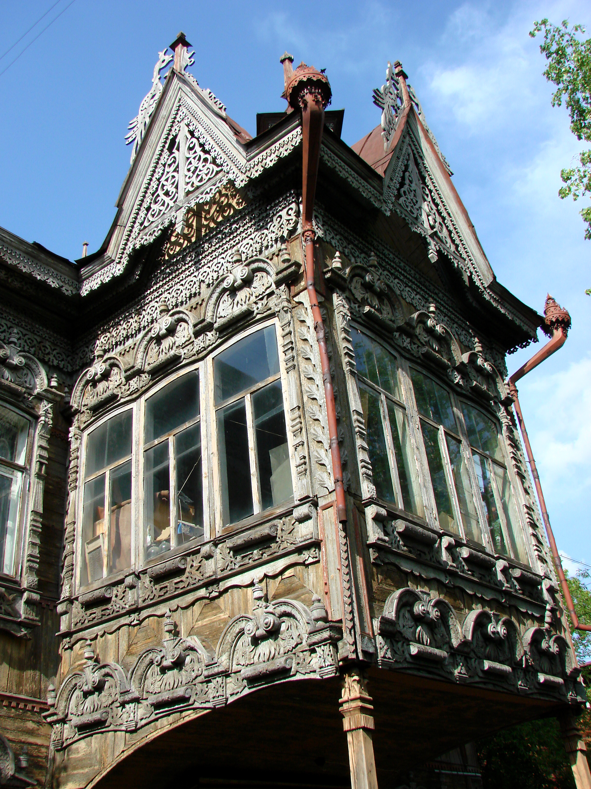 Traditional wooden house in Tomsk, Siberia, Russia. June 2008.